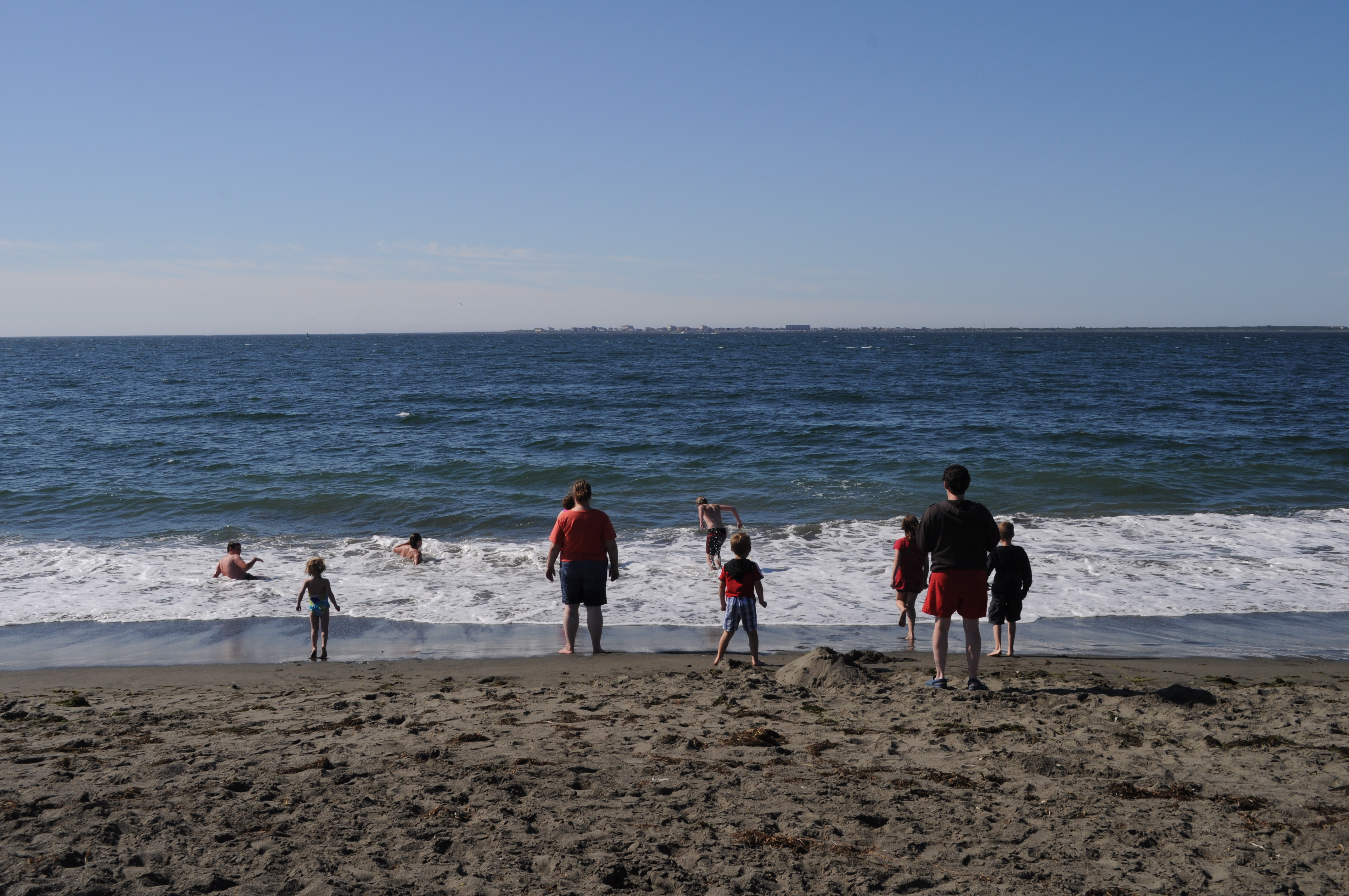 Beach at Westport, Washington, USA.